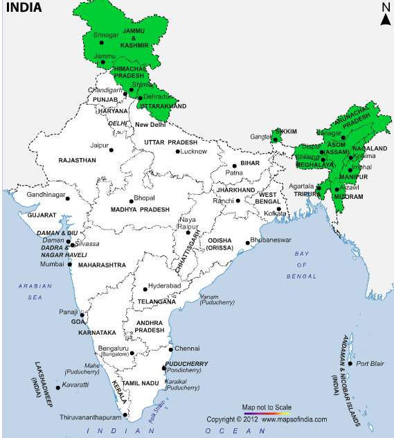 States with special category status in India by 2018 March were marked green